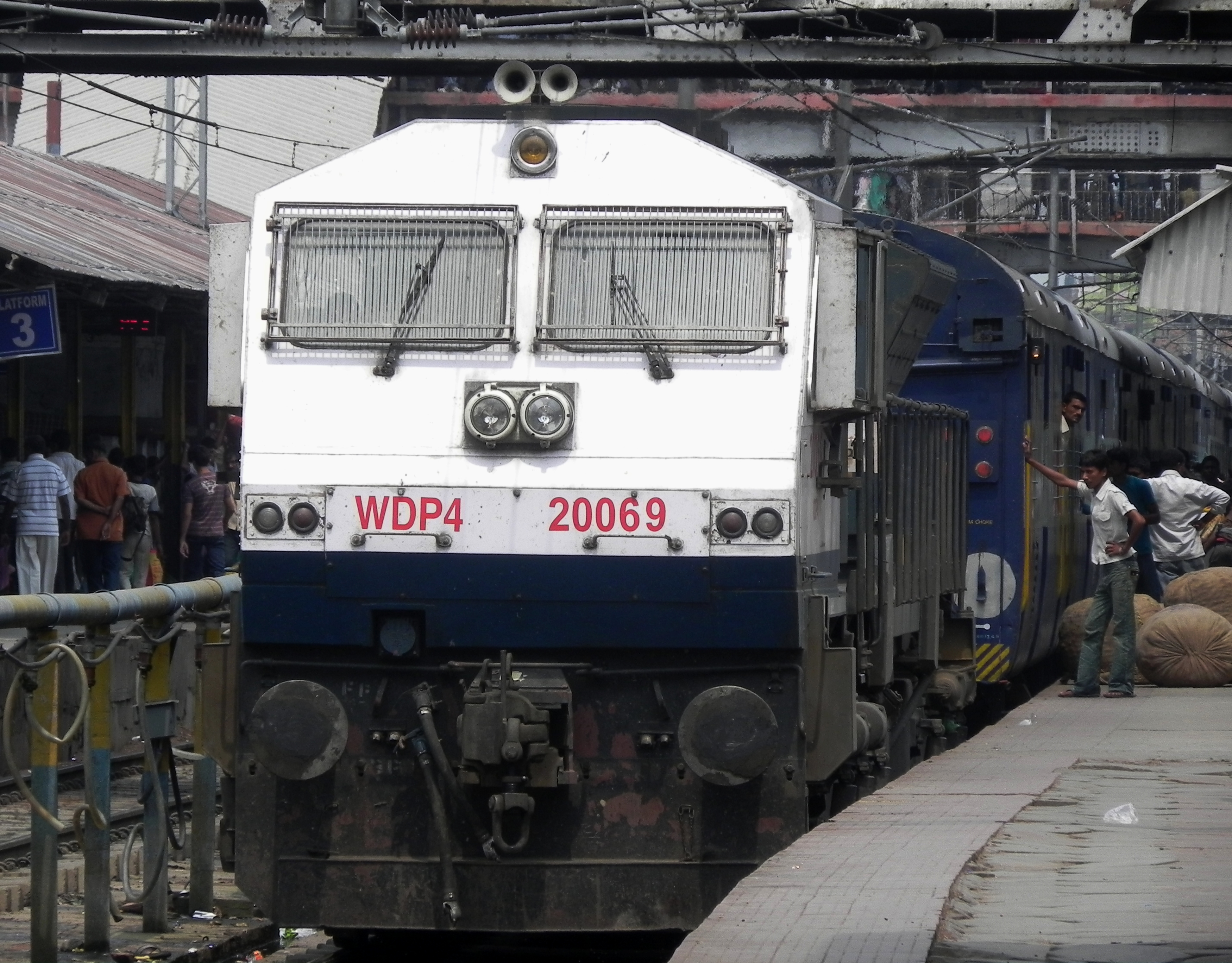 15713 (Katihar-Patna) Intercity Express at Chiriyatad, Patna is hauled by SGUJ based WDP-4 loco